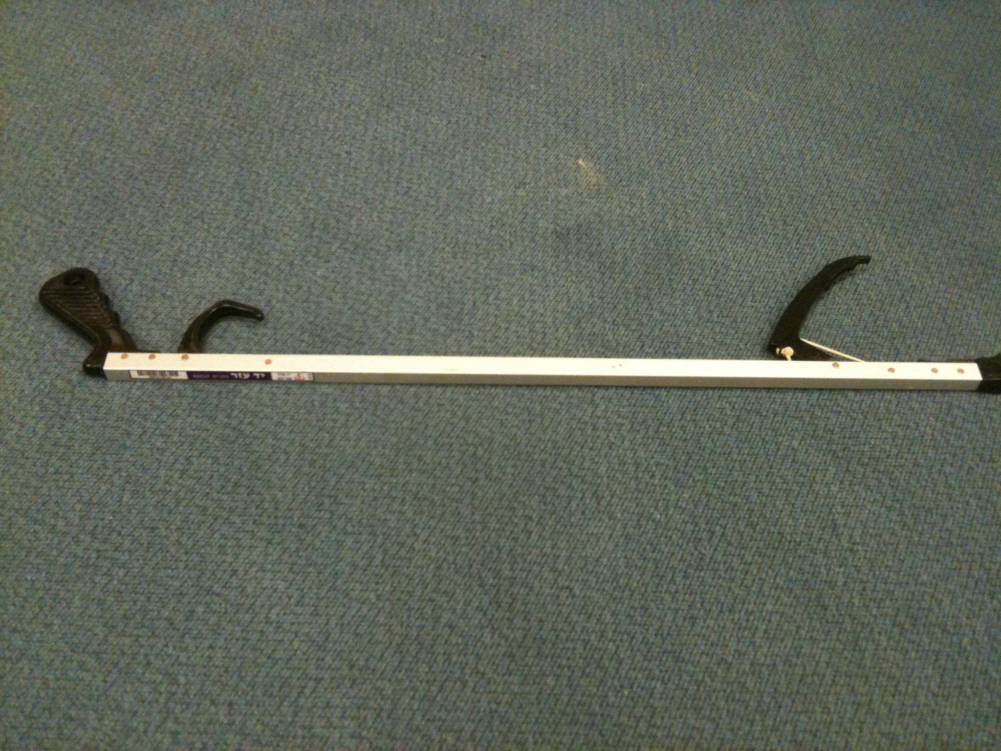 Reacher, an Assistive Technology device for daily living. Manufactured by Yad Sarah, Israel